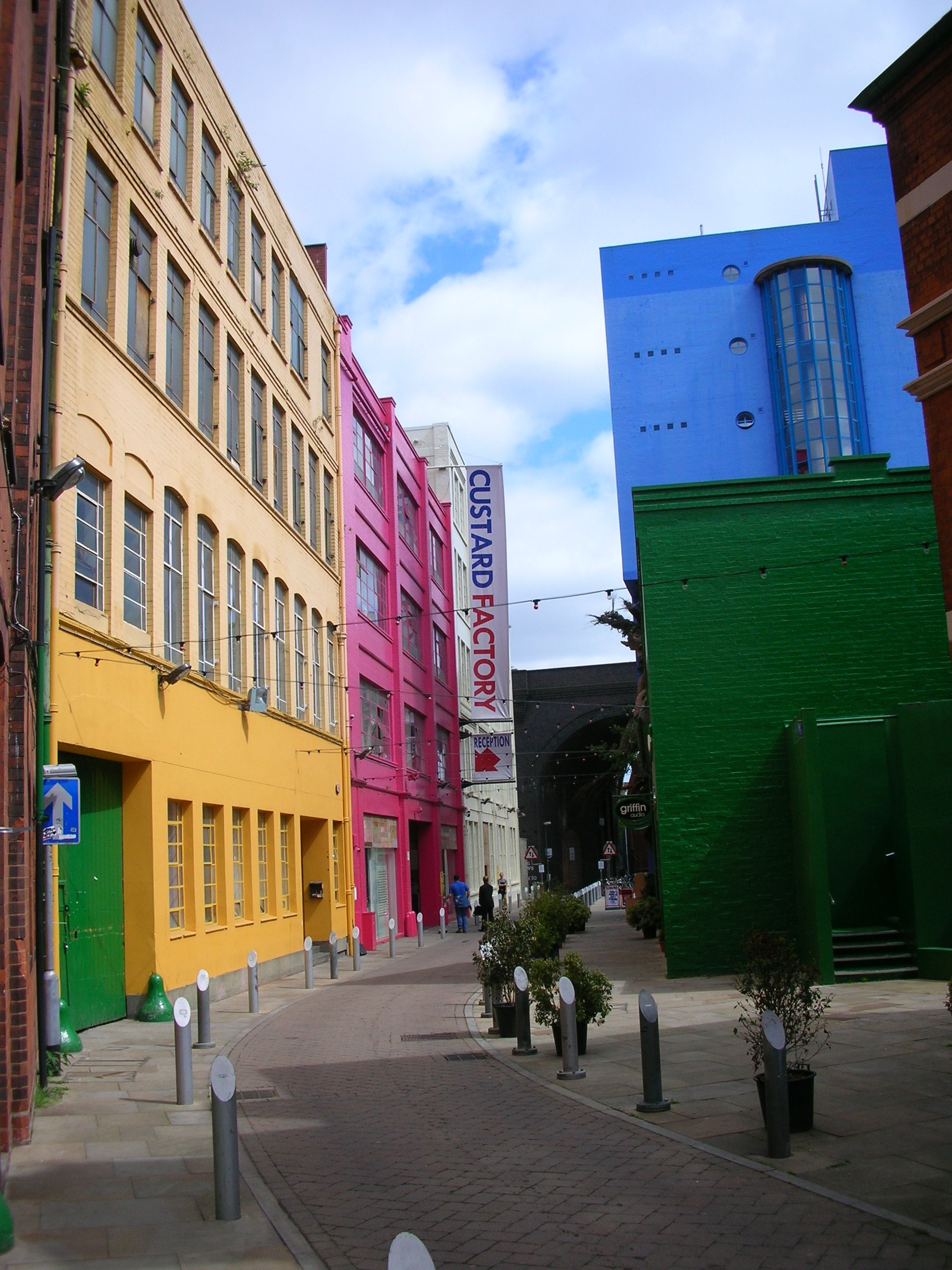 The Custard Factory, Gibb Street, Deritend, Birmingham, England. Photographed by me 21 June 2006. Oosoom